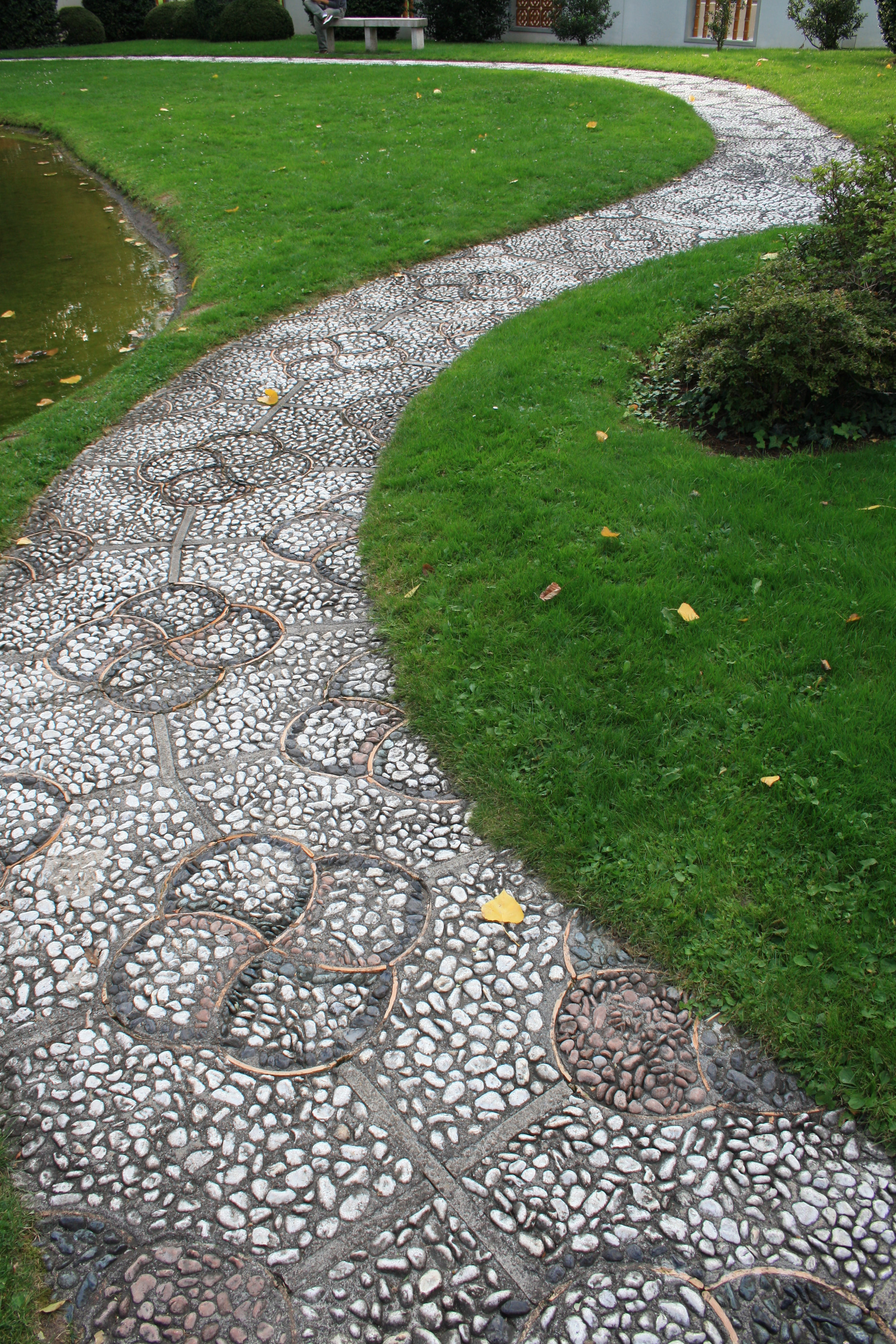 Chinagarten Zürich (Switzerland) Pebble mosaic garden path.